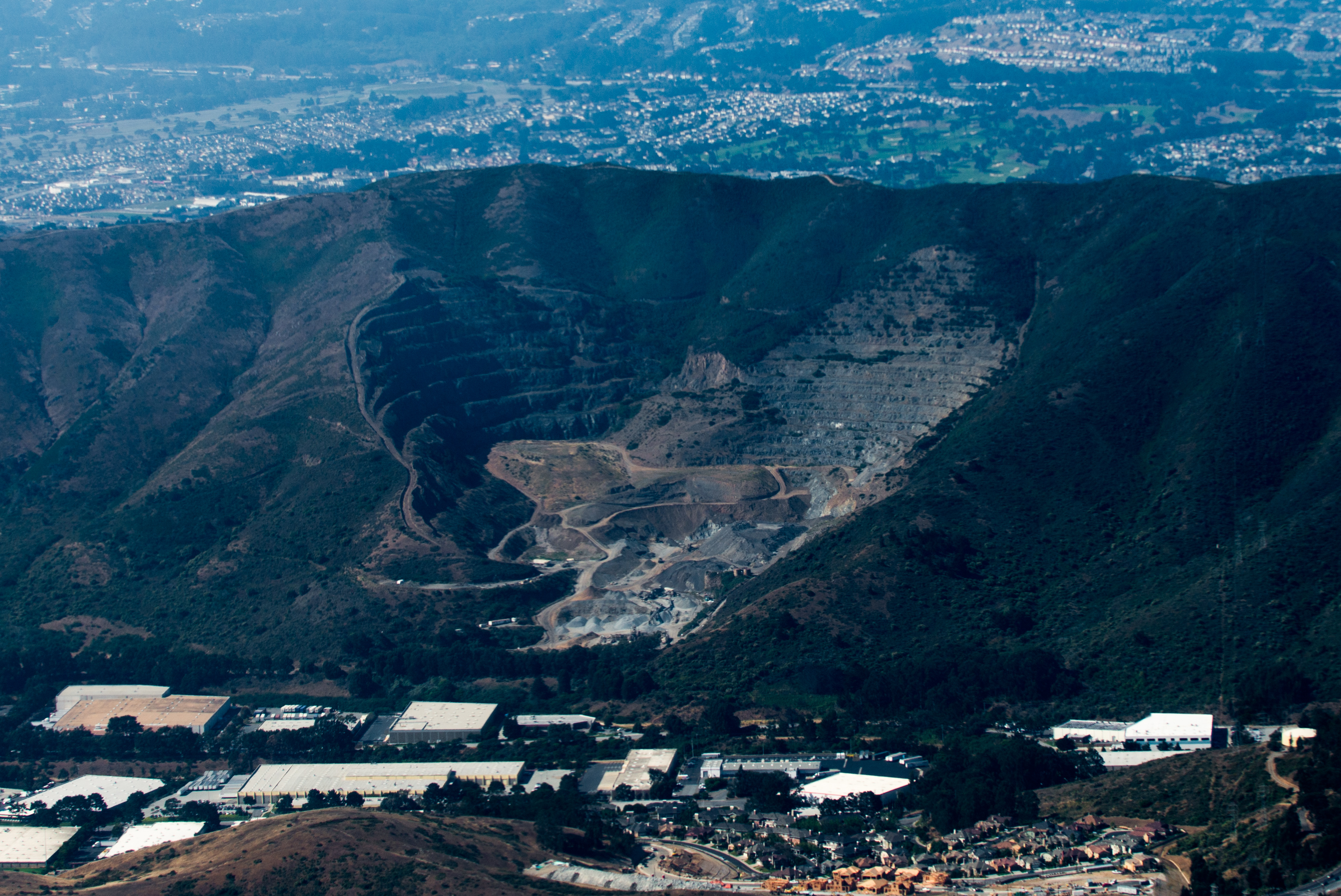 Guadalupe Quarry — a 144 acre quarry in Guadalupe Valley on the east face of San Bruno Mountain, the San Francisco Peninsula, California. Dating to 1895 and still active as of 2012, is operated by California Rock & Asphalt. There are plans to build a business park on the location when mining is complete. See: : Quarry-Road-Brisbane, : Brisbane-quarry-campaign, : guadalupe-quarry